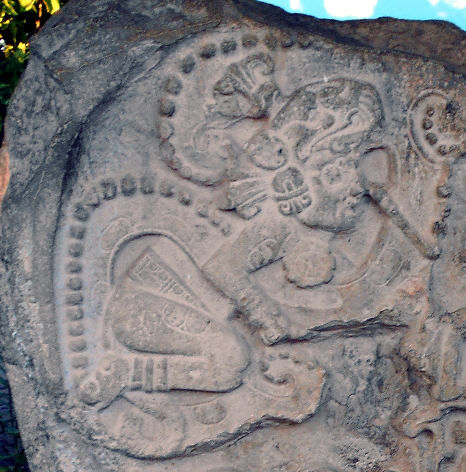 Representation of the Maya jaguar paddler god on Ixlu Stela 2, currently in Flores central park, Peten, Guatemala.